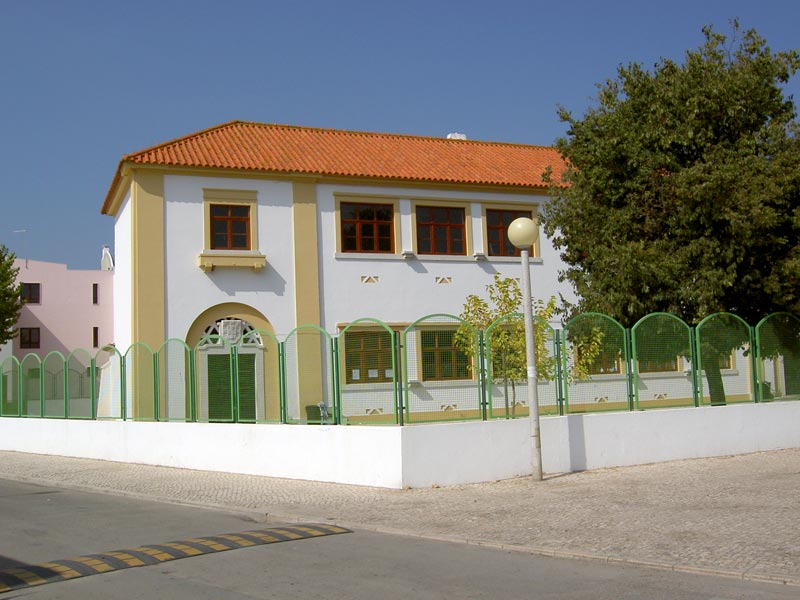 Primary School of Samouco